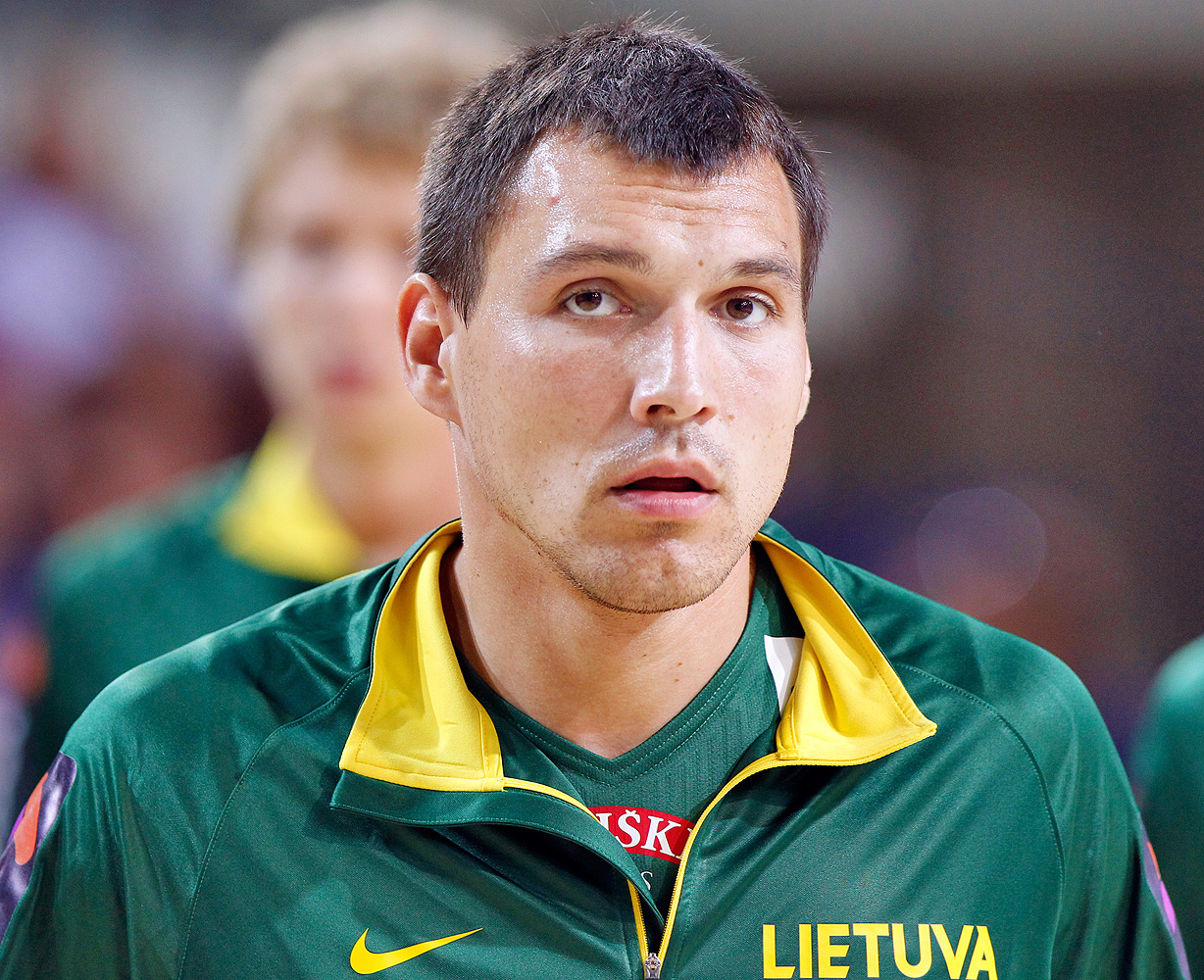 Lithuanian basketball player Jonas Maciulis